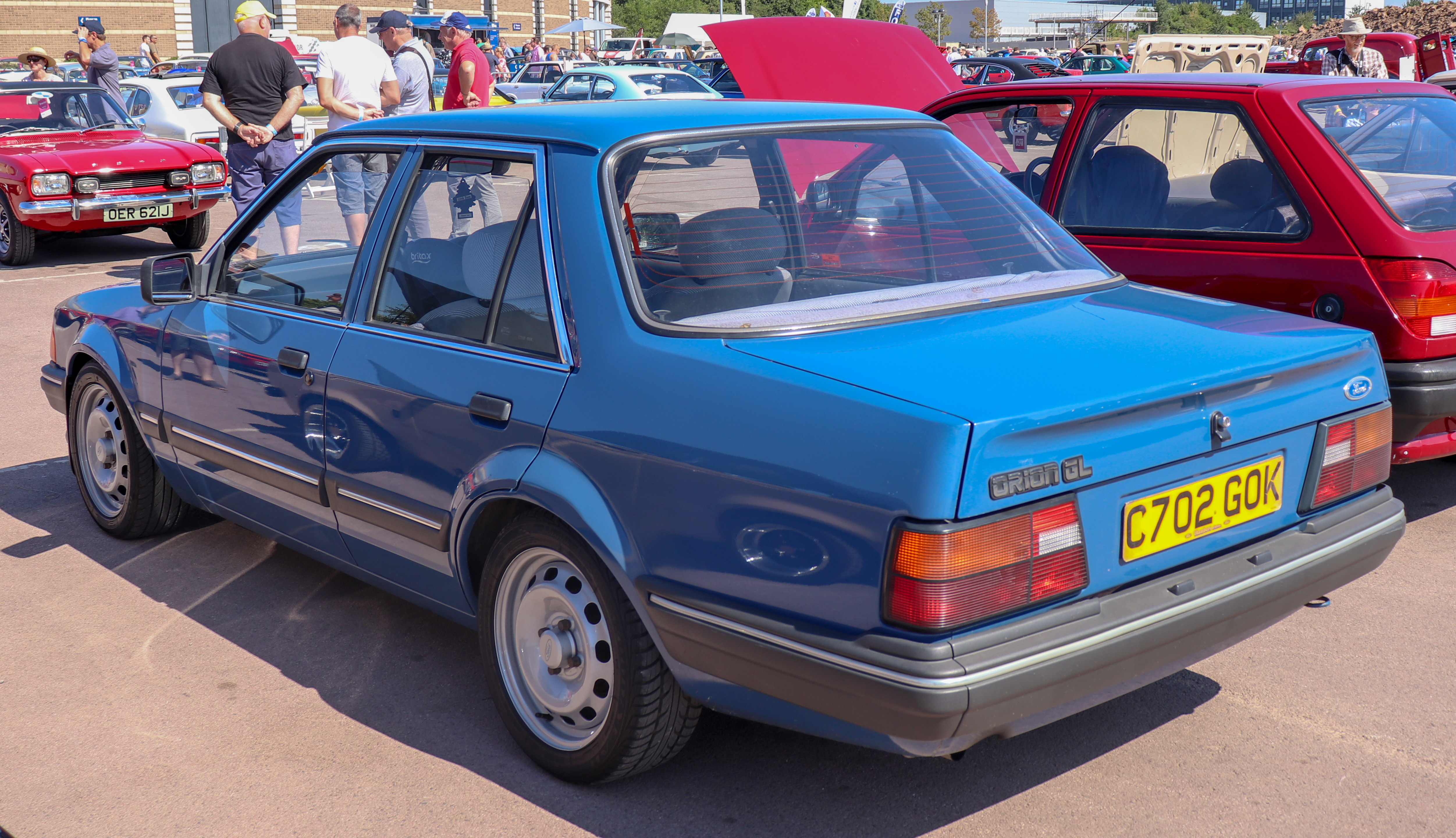 1985 Ford Orion GL 1.3 Rear Taken at the British Motor Museum Old Ford Rally 2018, Gaydon